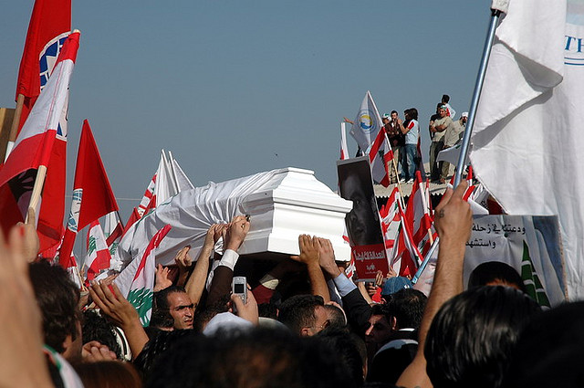 I'm not sure who this was. A number of people were killed in the assassination. A man next to me thought it was Gemayel. Some one else said it was a bodyguard.